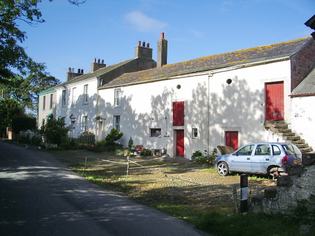 Causewayhead, near to Causewayhead, Cumbria, Great Britain.